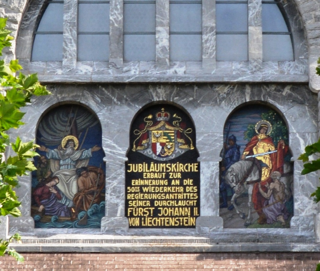 Mosaics of the parish church St. Nicholas in Balzers, Liechtenstein